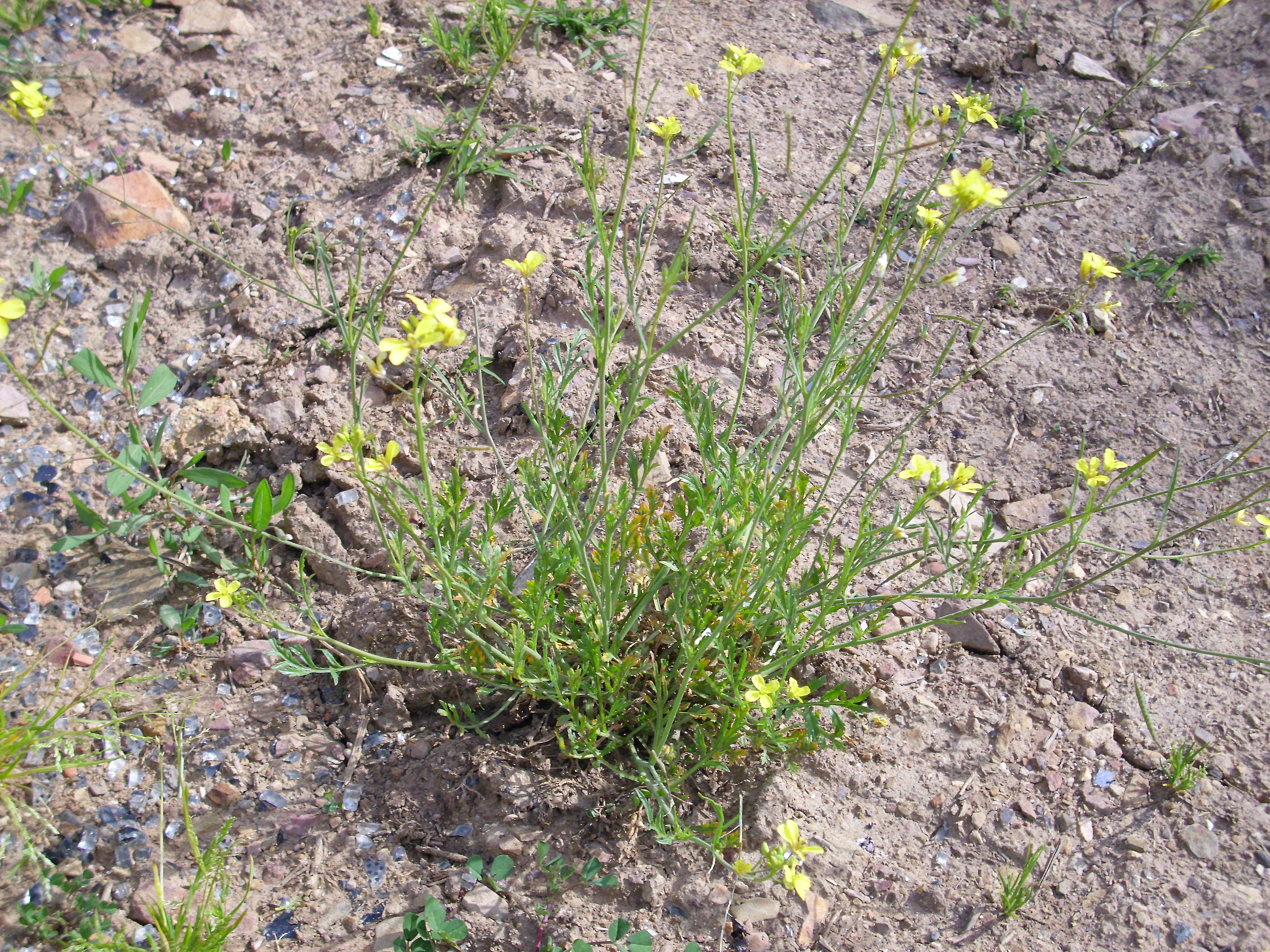 Diplotaxis catholica habit, Sierra Madrona, Spain